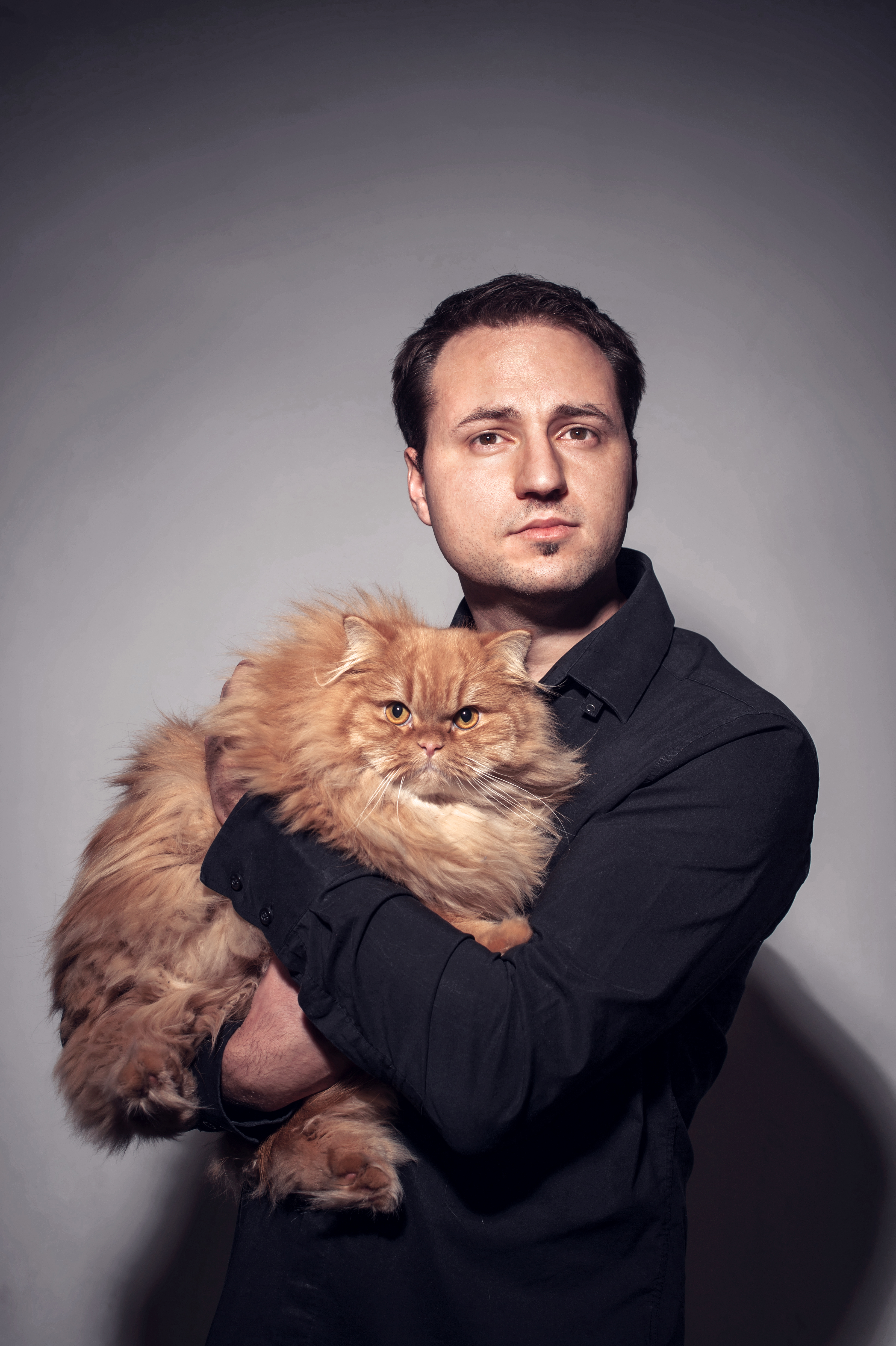 Alain Bieber mit Katze